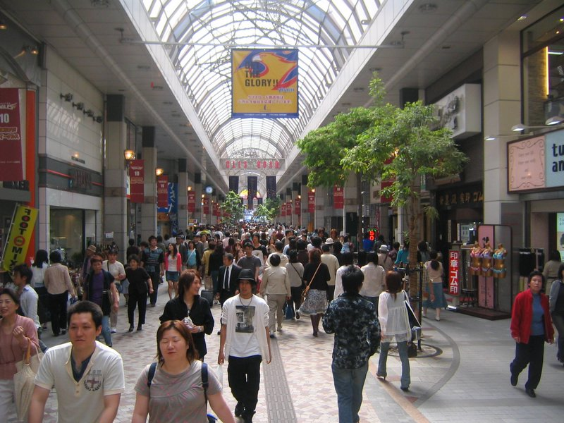 Clis road in Sendai